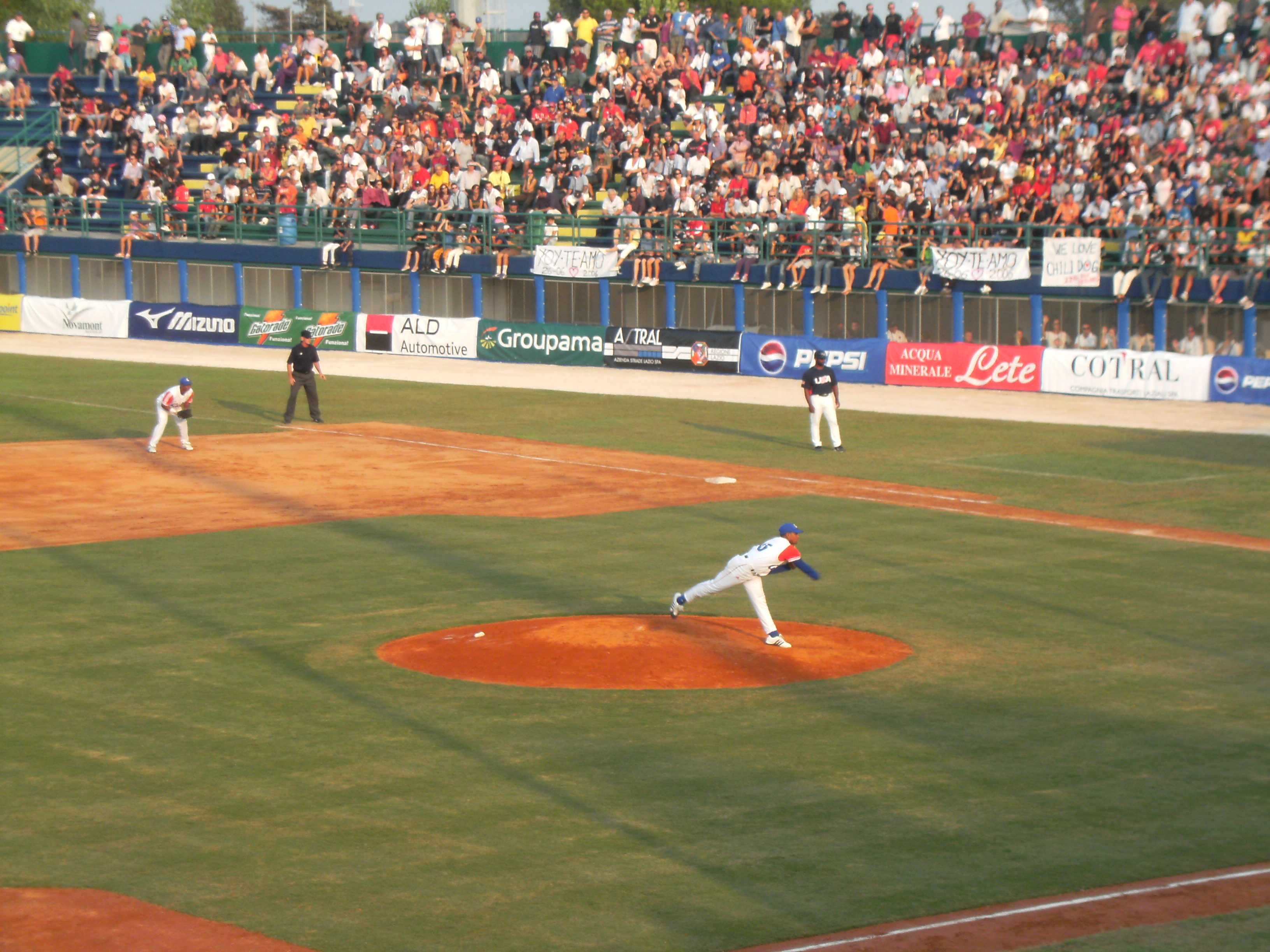 2009 Baseball World Cup - Final